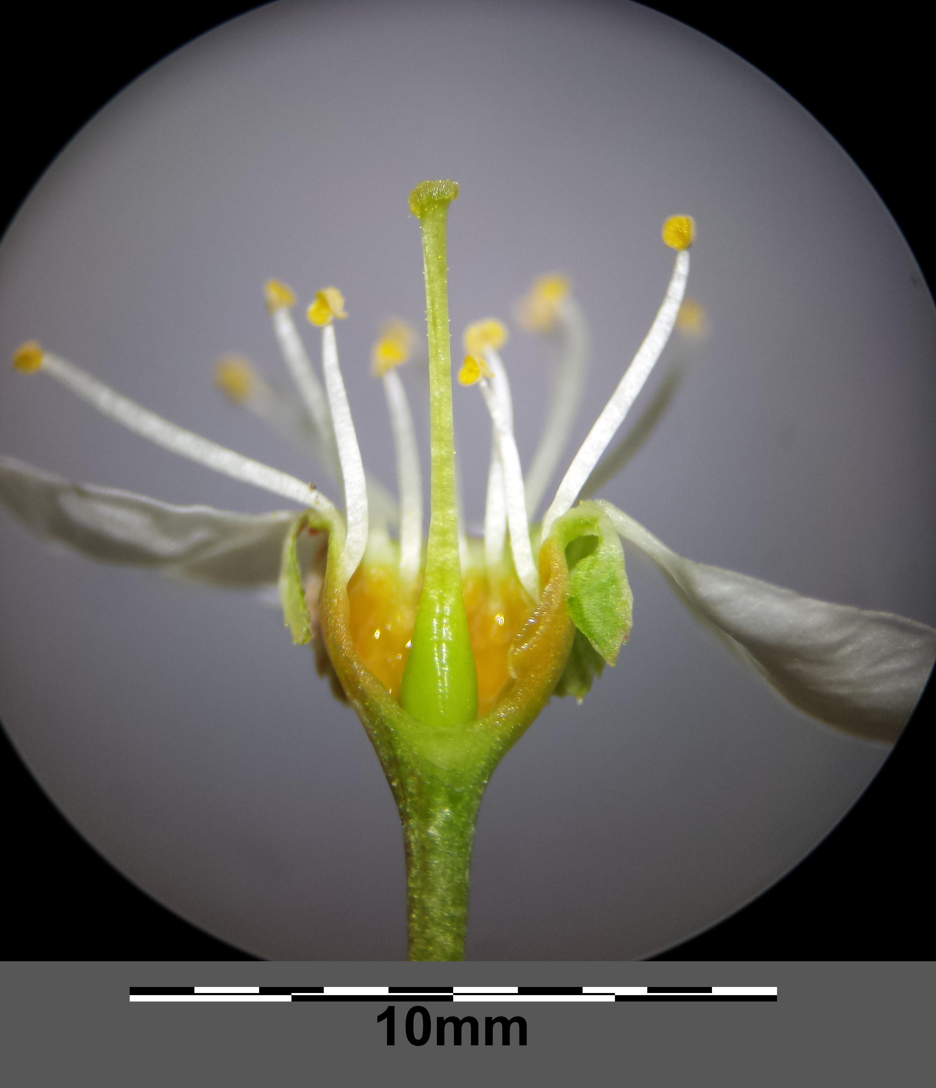 Flower, opened Taxonym: Prunus fruticosa ss Fischer et al. EfÖLS 2008 ISBN 978-3-85474-187-9 Location: Altenbergen to the North of Ladendorf, district Mistelbach, Lower Austria - ca. 290 m a.s.l. Habitat: slope